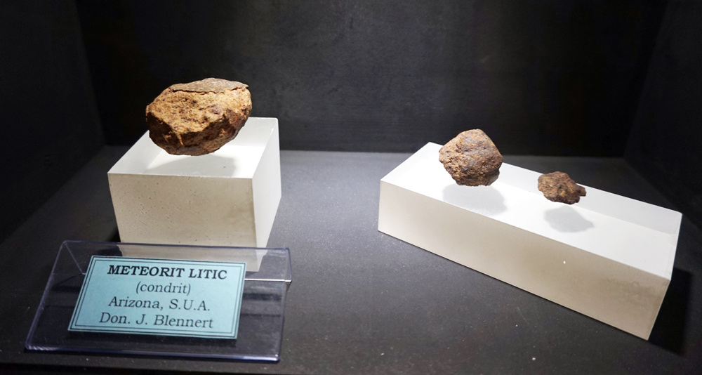 Meteorites in Grigore Antipa Natural History Museum. Found in Arizona. This photograph was taken with a Sony Alpha a5000.